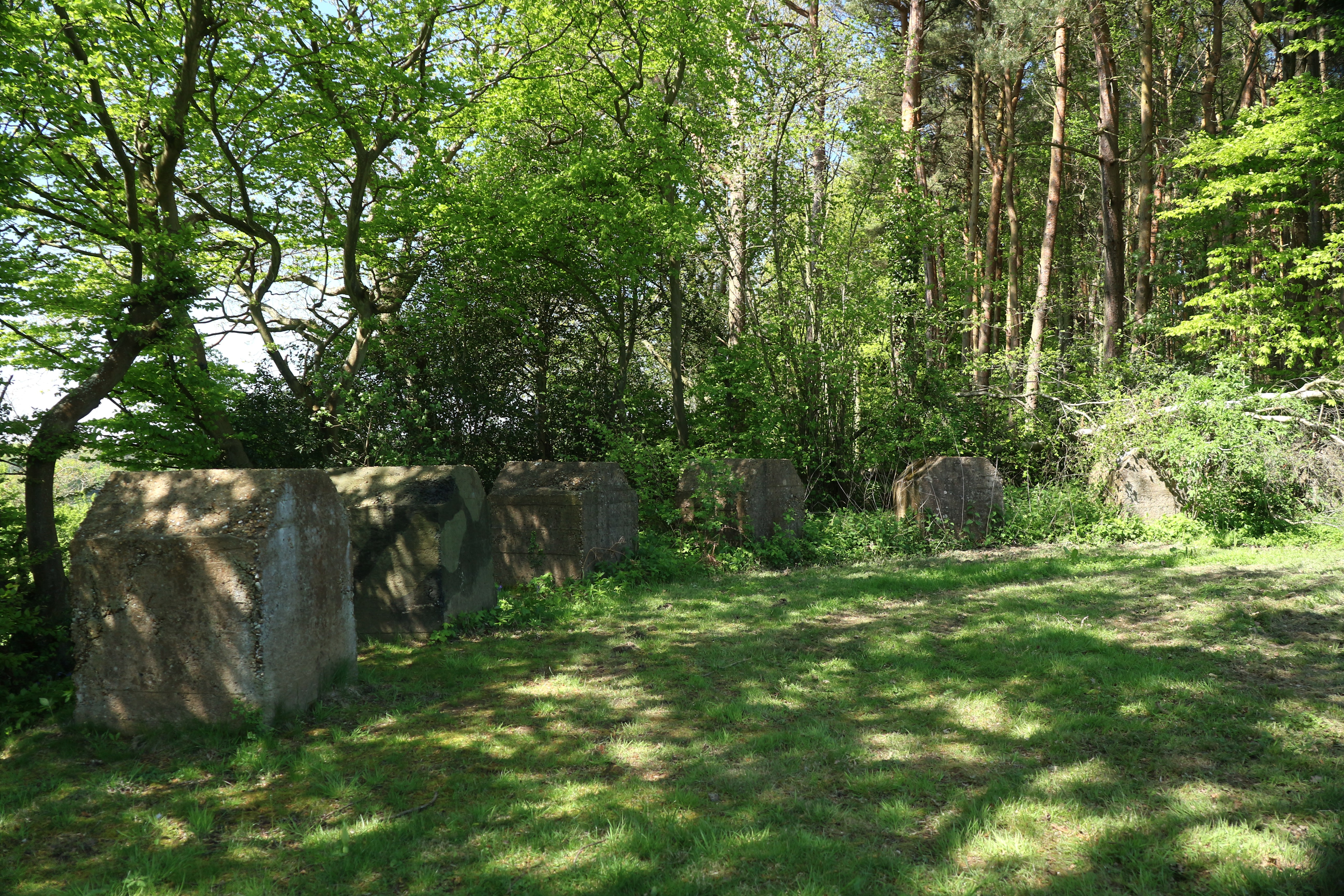 Anti tank devices at Sedlescombe Organic Vineyard